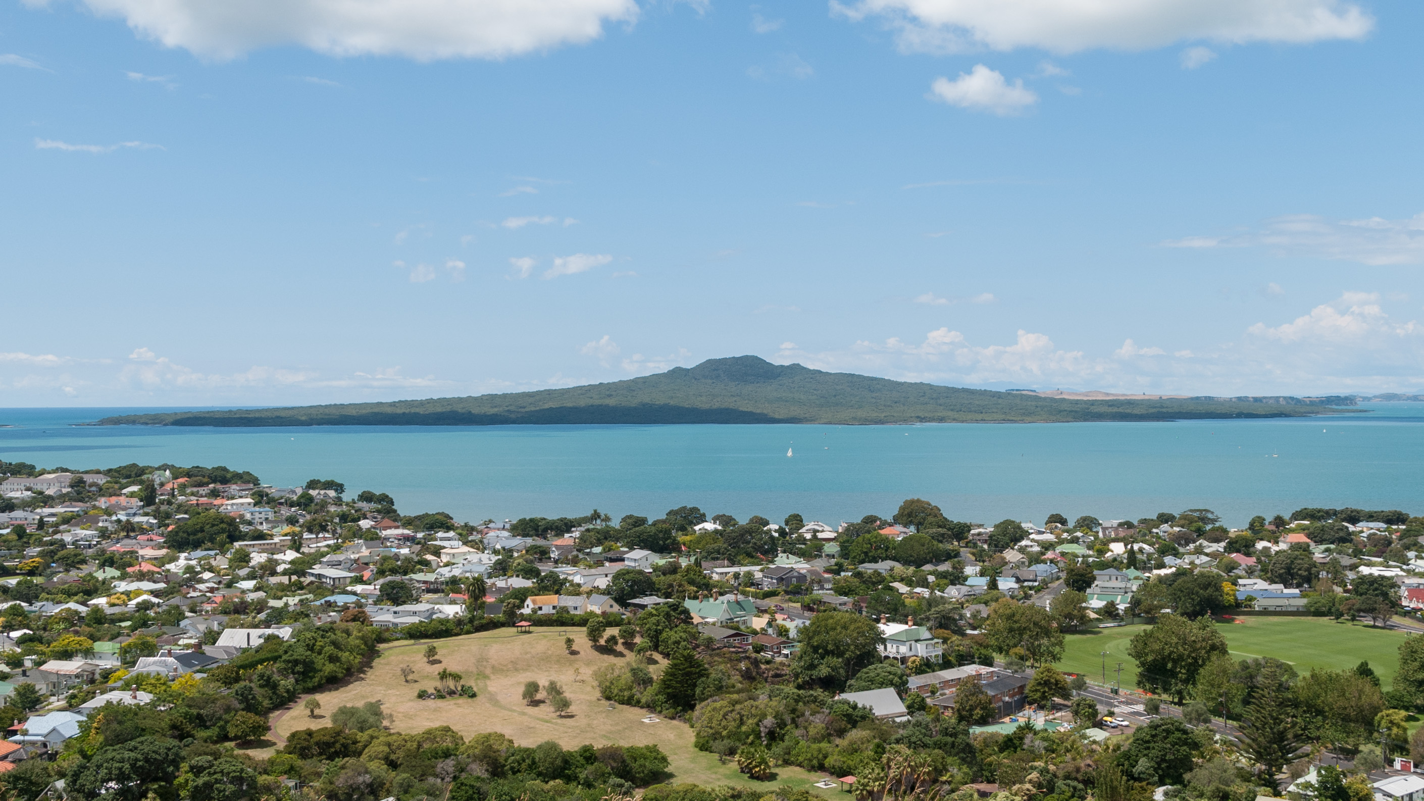 Rangitoto Island as seen from Mount Victoria Reserve in Devonport, North Shore City